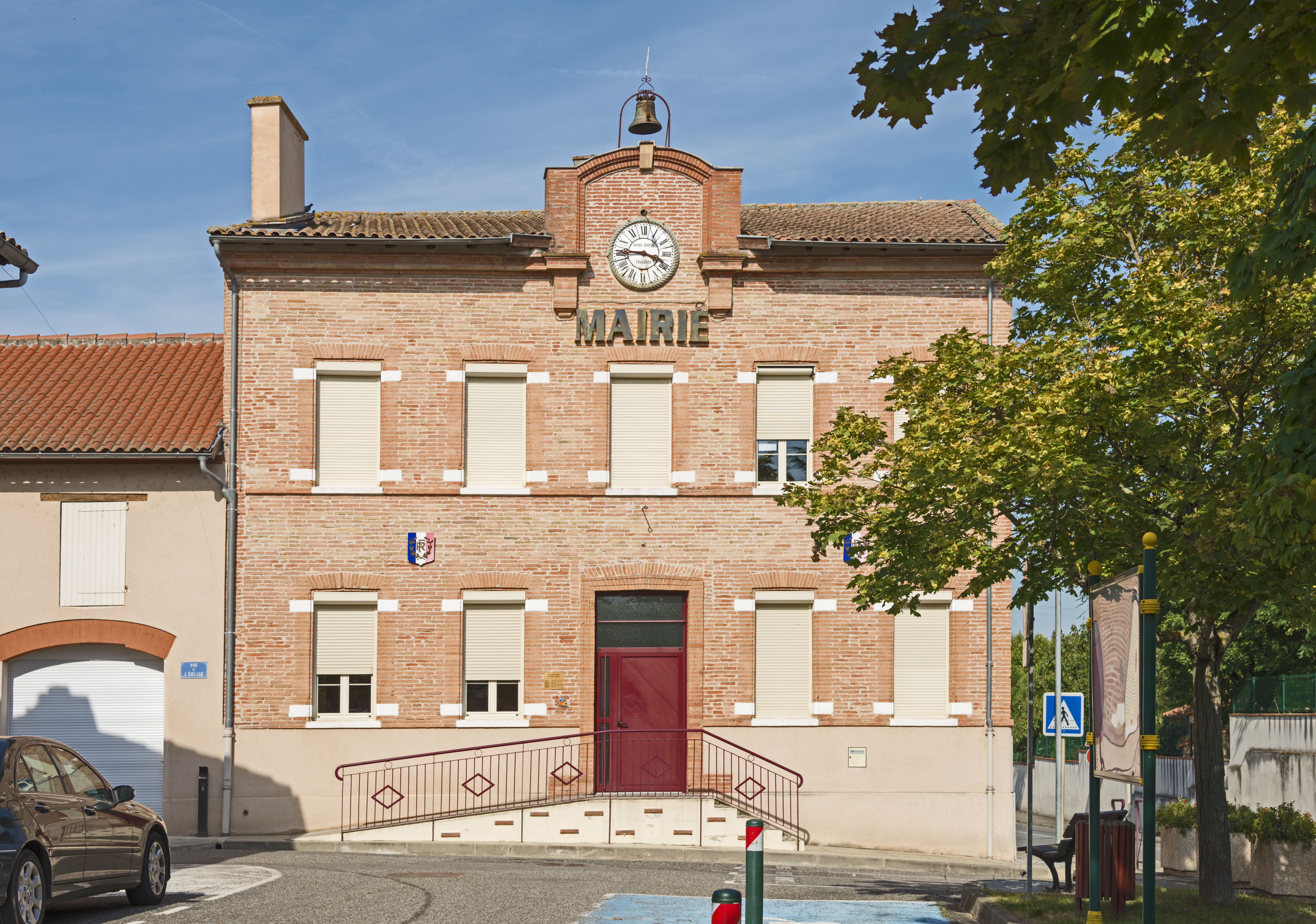 Cépet (Haute-Garonne). Facade of the Town Hall.